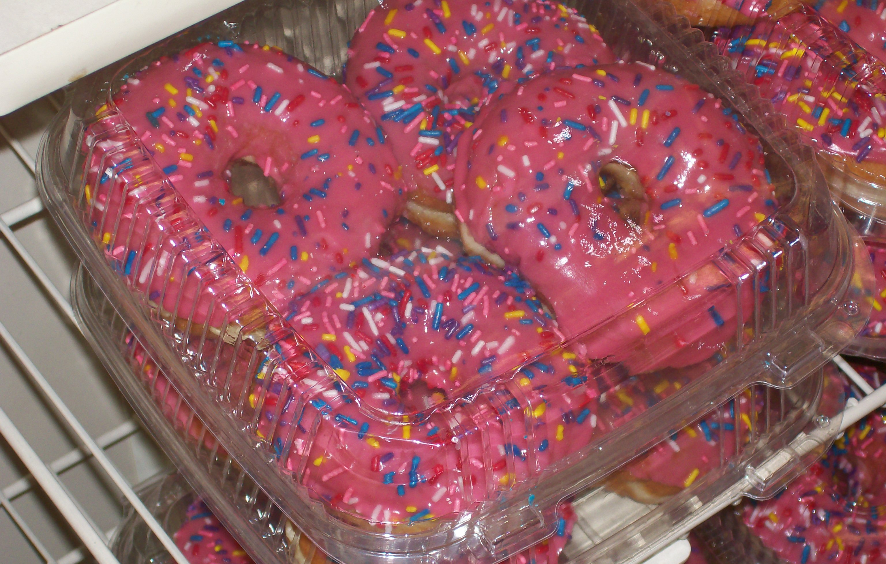 A single case of pink movie donuts for the Simpsons Movie. Were available at 7-Eleven disguised as Kwik-E-Marts through July 27. Picture taken by me.